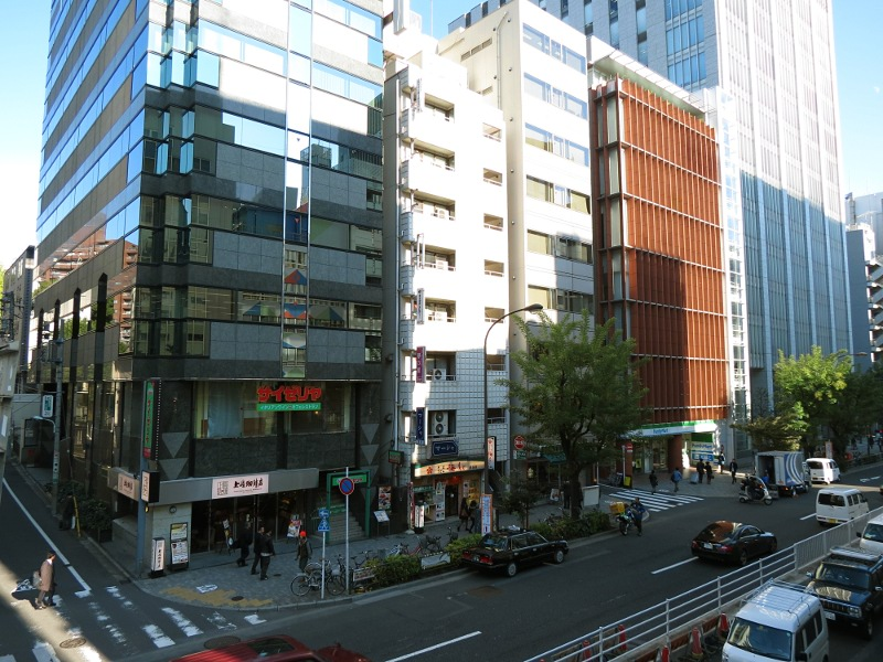 Former location of Tenjo Sajiki Shibuya theater, photographed in November 2012.